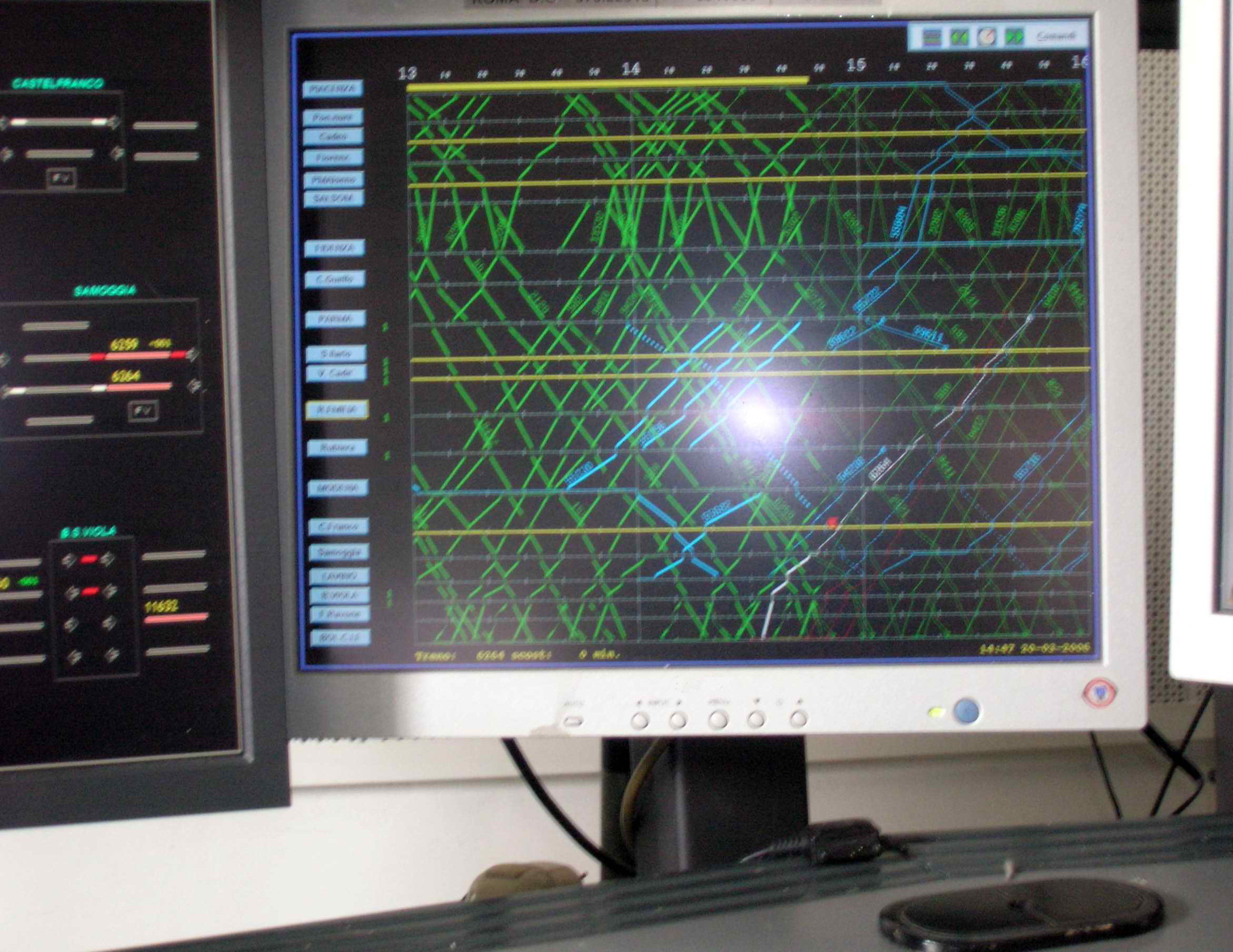 Monitor of despatcher's control panel (SSDC system) with graphical display of the traffic. Line Piacenza-Bologna Italian Railways (FS)